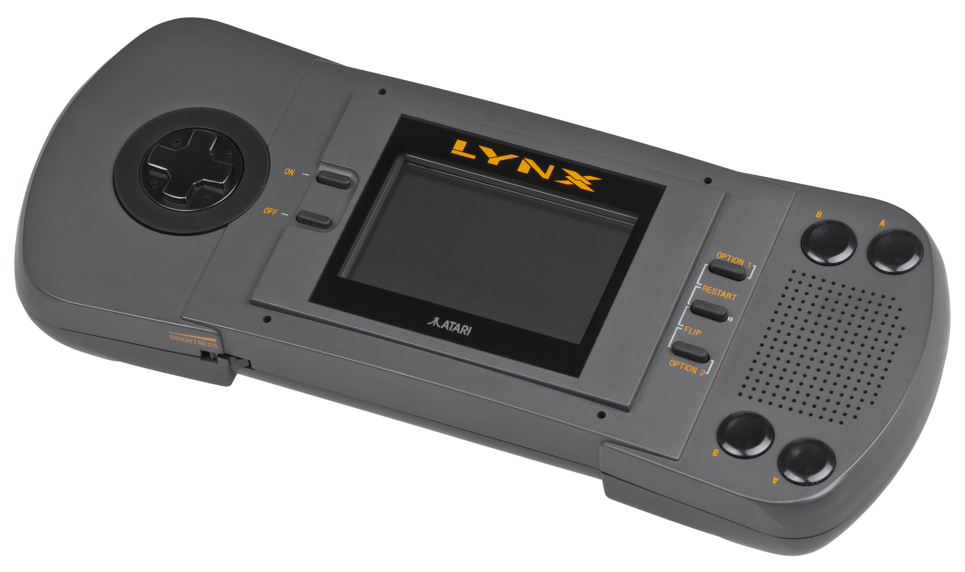 An Atari Lynx I handheld video game console.